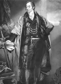 Lawrence Dundas, 1st Earl of Zetland (1766-1839)